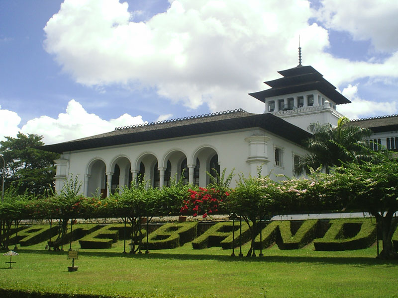 The backside view of Gedung Sate at Bandung.